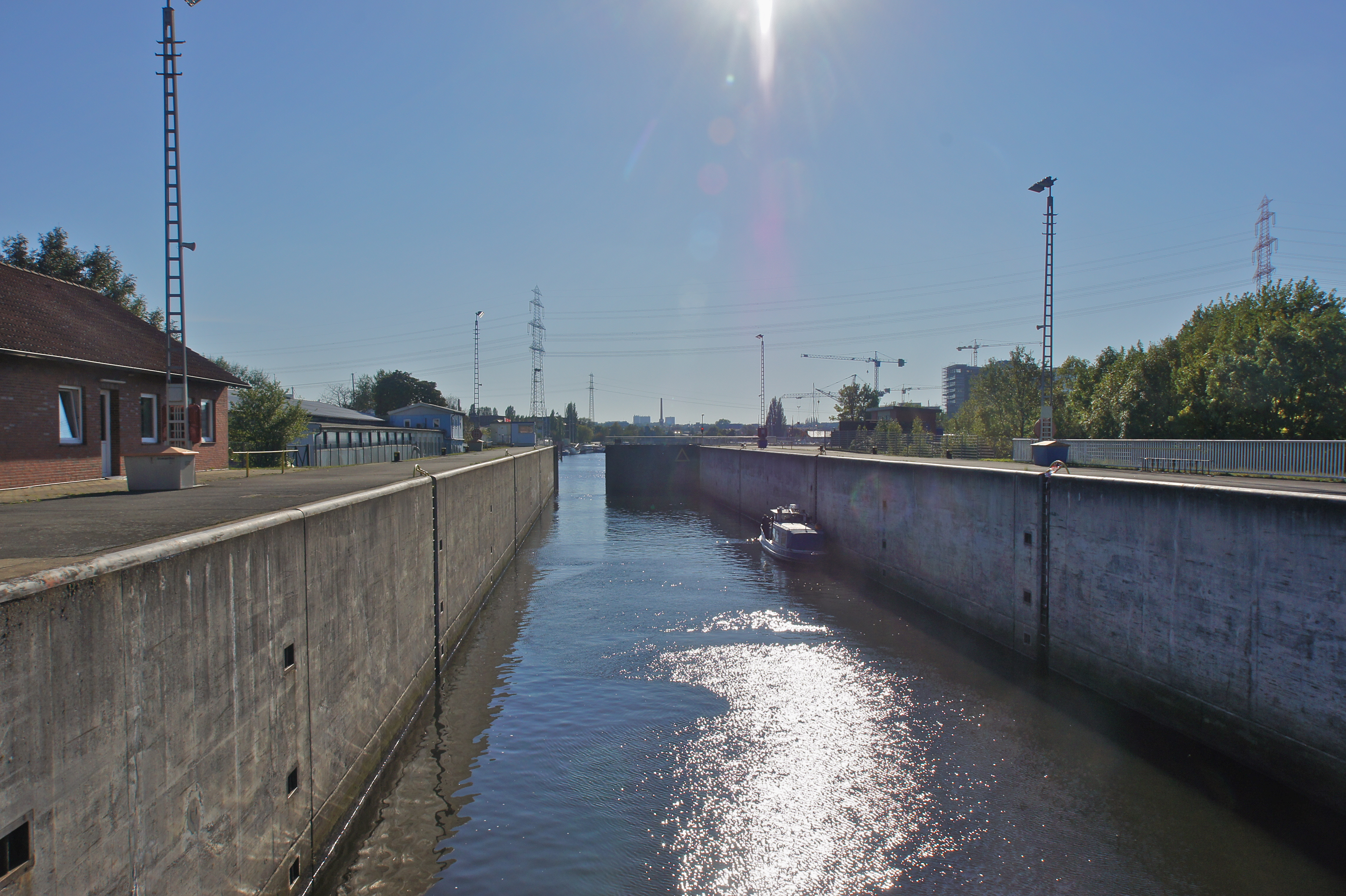 Hamburg (Harburg), Germany: The main lock from the Elbe to the Verkehrshafen